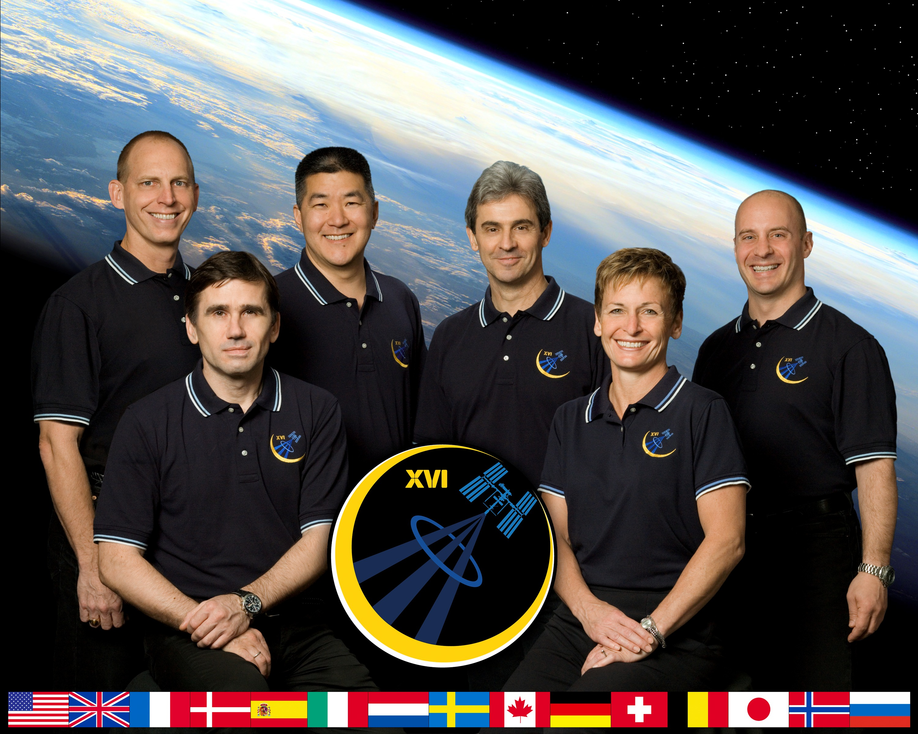 International Space Station during Expedition 16. Astronaut Peggy Whitson (front row, right), station commander; and Russia's Federal Space Agency cosmonaut Yuri Malenchenko (front row, left), flight engineer and Soyuz commander, NASA astronaut Clay Anderson (back row, left), flight engineer, astronaut Dan Tani (back row, second from left), flight engineer, Leopold Eyharts of the European Space Agency (back row, third from left), astronaut Garrett Reisman (back row, far right), flight engineer.